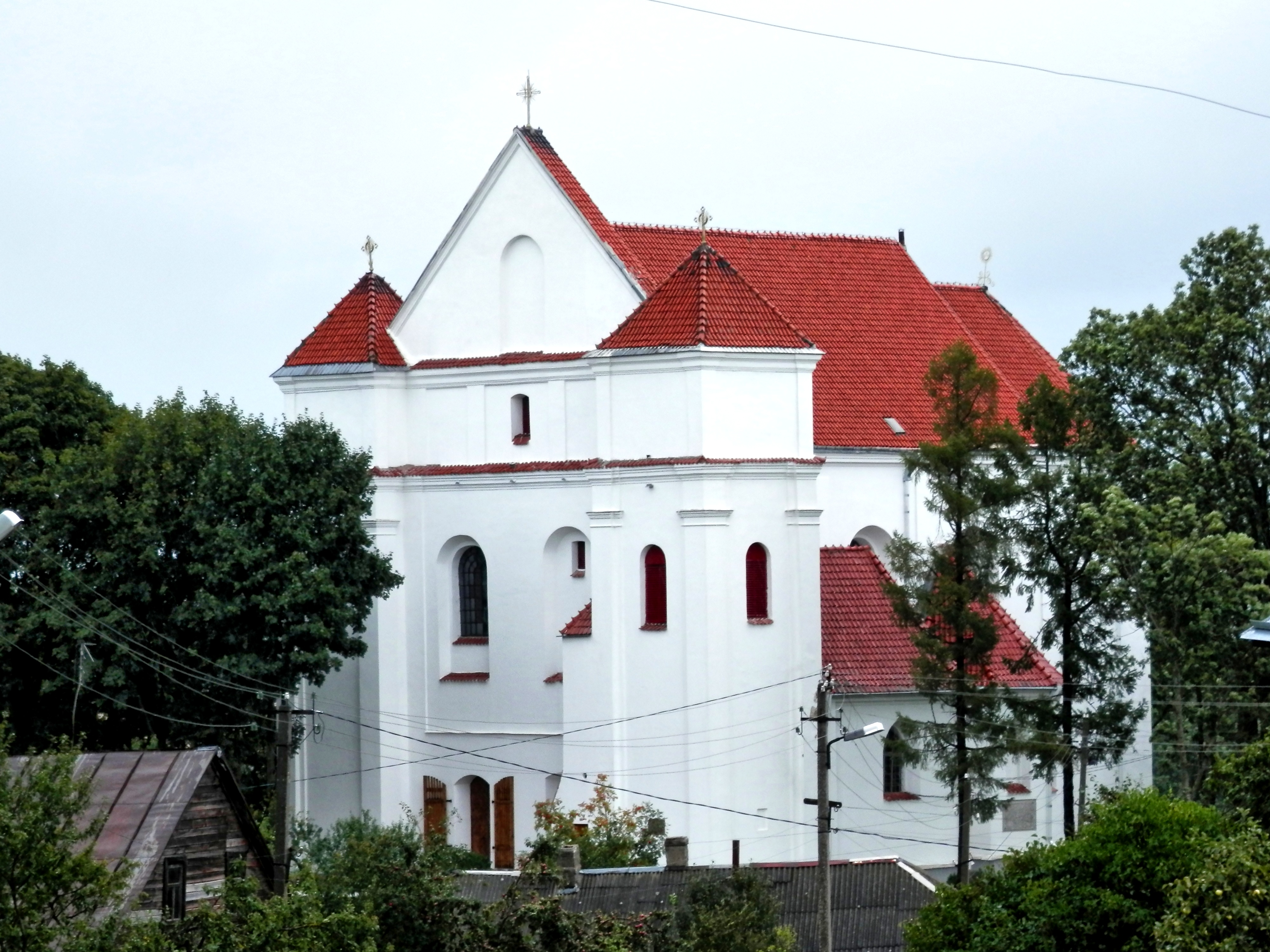 Transfiguration Roman Catholic Church in Navahrudak (XVIII century)